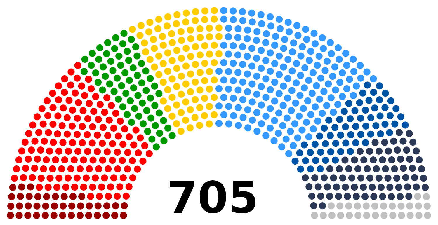 GUE/NGL: 40 seats S&D: 147 seats G/EFA: 67 seats RE: 98 seats EPP: 187 seats ECR: 62 seats ID: 76 seats NI: 28 seats